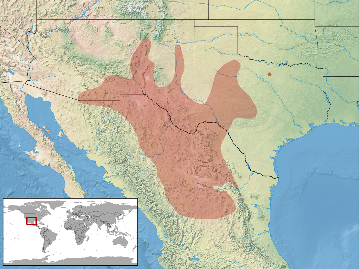 geographic distribution of Gyalopion canum (Native: Mexico; United States)